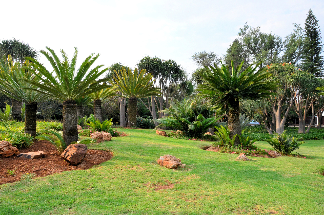 Jan Celliers Park in Groenkloof, Pretoria, South Africa. This park was named after the poet Jan FE Celliers